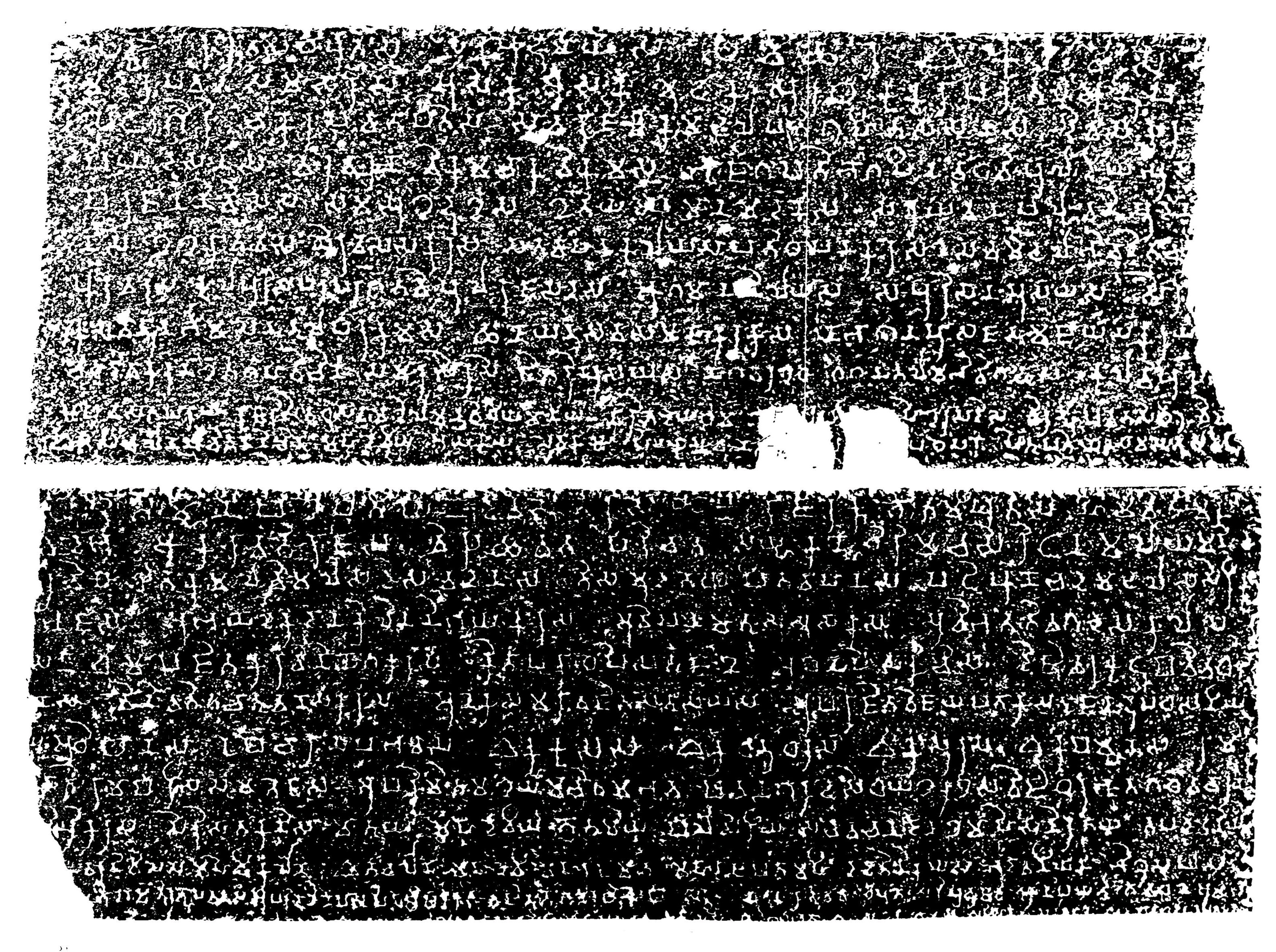 Nasik cave 3 inscription of Queen Gotami Balasiri